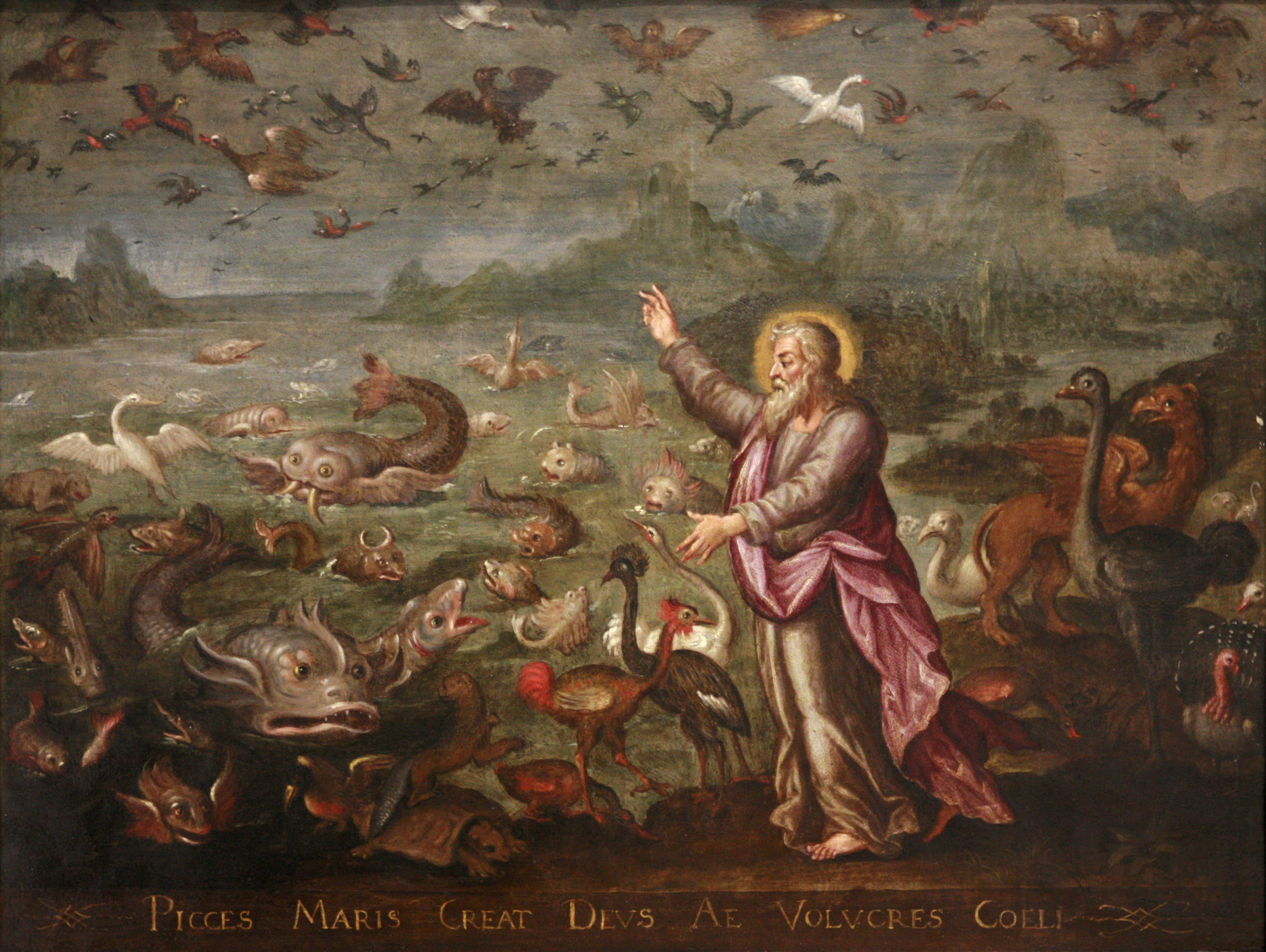 God creating the birds and the fishes, Maerten de Vos, 1600-1602. Oil on copper. Given by Eisenbeth in 2004. Accession number: 44.2004.2.12